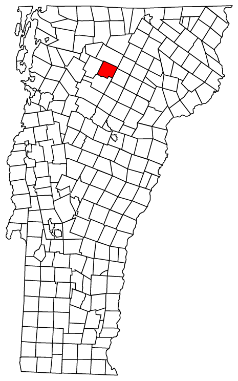 Description: Map of Vermont towns with Hyde Park highlighted Source: Map created by Jared C. Benedict on 26 March 2004. Copyright: © Jared C. Benedict.